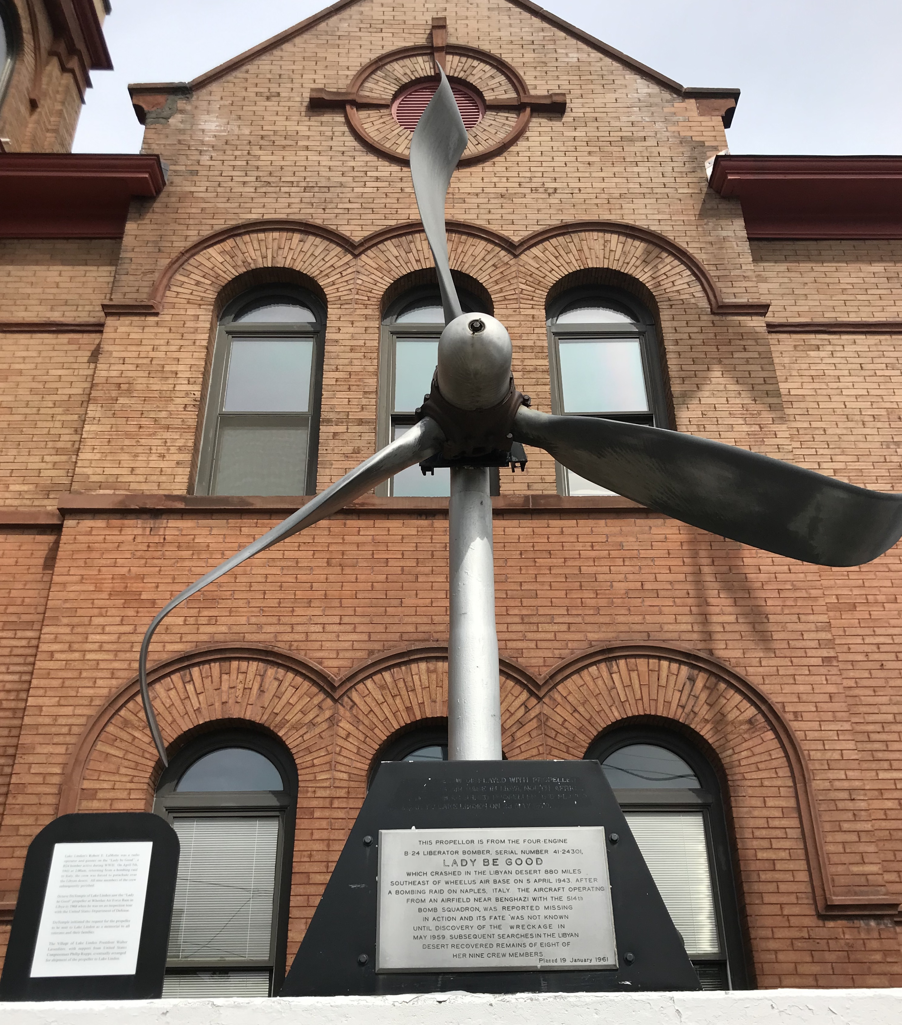 A damaged propeller from the Lady Be Good displayed in Lake Linden, Michigan. The text of the plaque reads “This propeller is from the four-engine B-24 Liberator bomber, serial number 41-24301, Lady Be Good which crashed in the Libyan desert 880 miles southeast of Wheelus Air Base on 5 April 1943, after a bombing raid on Naples, Italy. The aircraft operating from an airfield near Benghazi with the 514th Bomb Squadron, was reported missing in action and its fate was not known until discovery of the wreckage in May 1959. Subsequent searches in the Libyan desert recovered remains of eight of her nine crew members. Placed 19 January 1961.” A placard to the side reads “Lake Linden’s Robert E. LaMotte was a radio operator and gunner on the ‘Lady be Good’ a B25 bomber active during WWII. On April 5th, 1943 at 2:00 a.m., returning from a bombing raid to Italy, the crew was forced to parachute over the Libyan desert. All nine members of the crew subsequently perished. / Octave DuTemple of Lake Linden saw the ‘Lady Be Good’ propeller at Wheelus Air Force Base in Libya in 1968 when he was on an inspection tour with the United States Department of Defense. / DuTemple initiated the request for the propeller to be sent to Lake Linden as a memorial to all veterans and their families. / The Village of Lake Linden President Walter Laverdiere [1923–2014], with support from United States Congressman Philip Ruppe, eventually arranged for the shipment of the propeller to Lake Linden.”